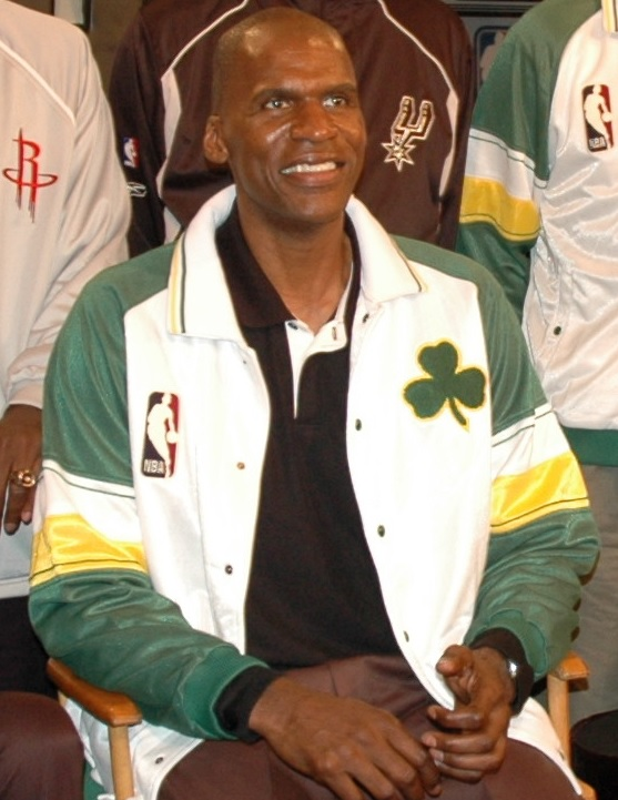 Boston Celtics great Robert Parish